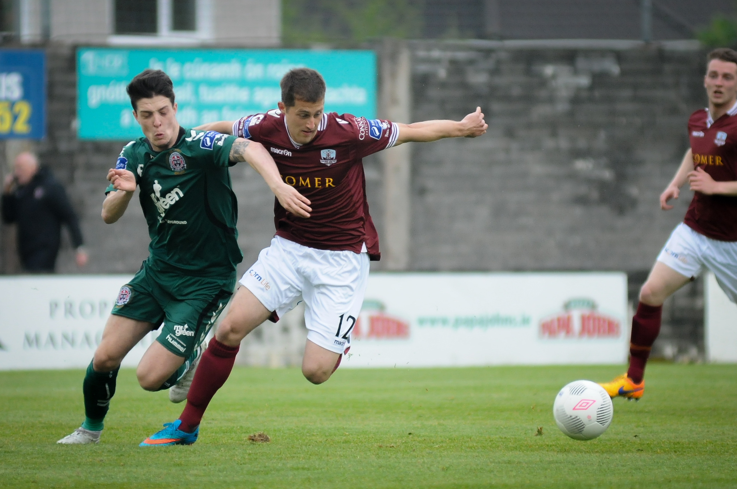 Adam Evans of Bohemians and Jake Keegan of Galway United in action at Eamon Deacy Park